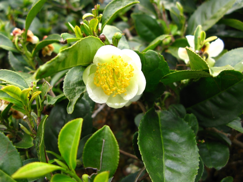 Flower in a tea plant at a Darjeeling Tea plantation.